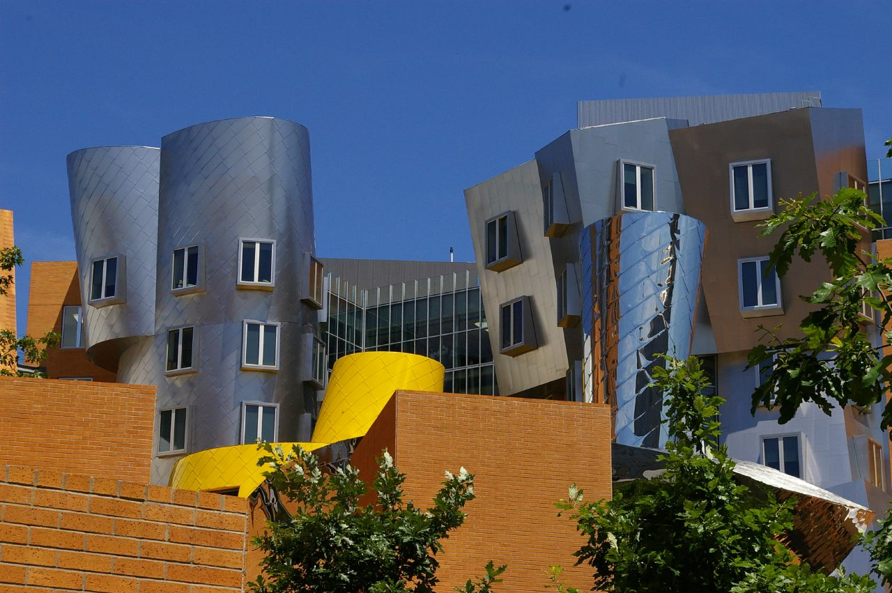 MIT Stata Center. Architect: Frank Gahry